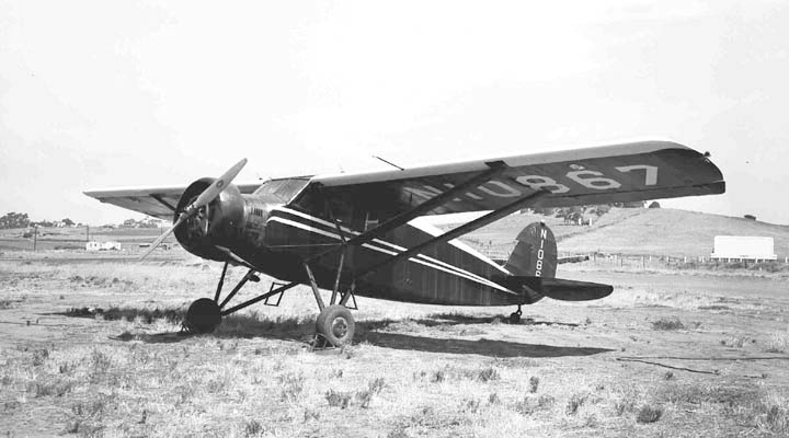 Stinson JRS N10867